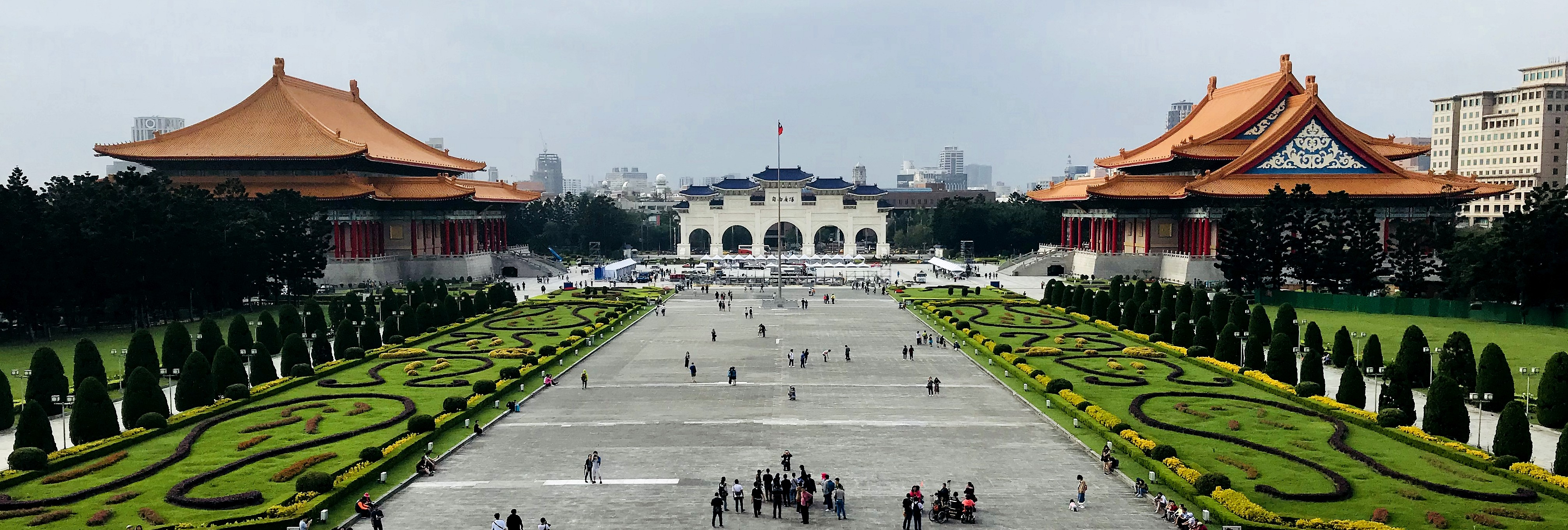 Liberty Square (also Freedom Square) is a public plaza covering over 240,000 square meters in the Zhongzheng District of Taipei, Taiwan. It has served as the public gathering place of choice since its completion in the late 1970s. The name of the square recalls the important historical role it played in Taiwan's transition from one-party rule to modern democracy in the 1990s.